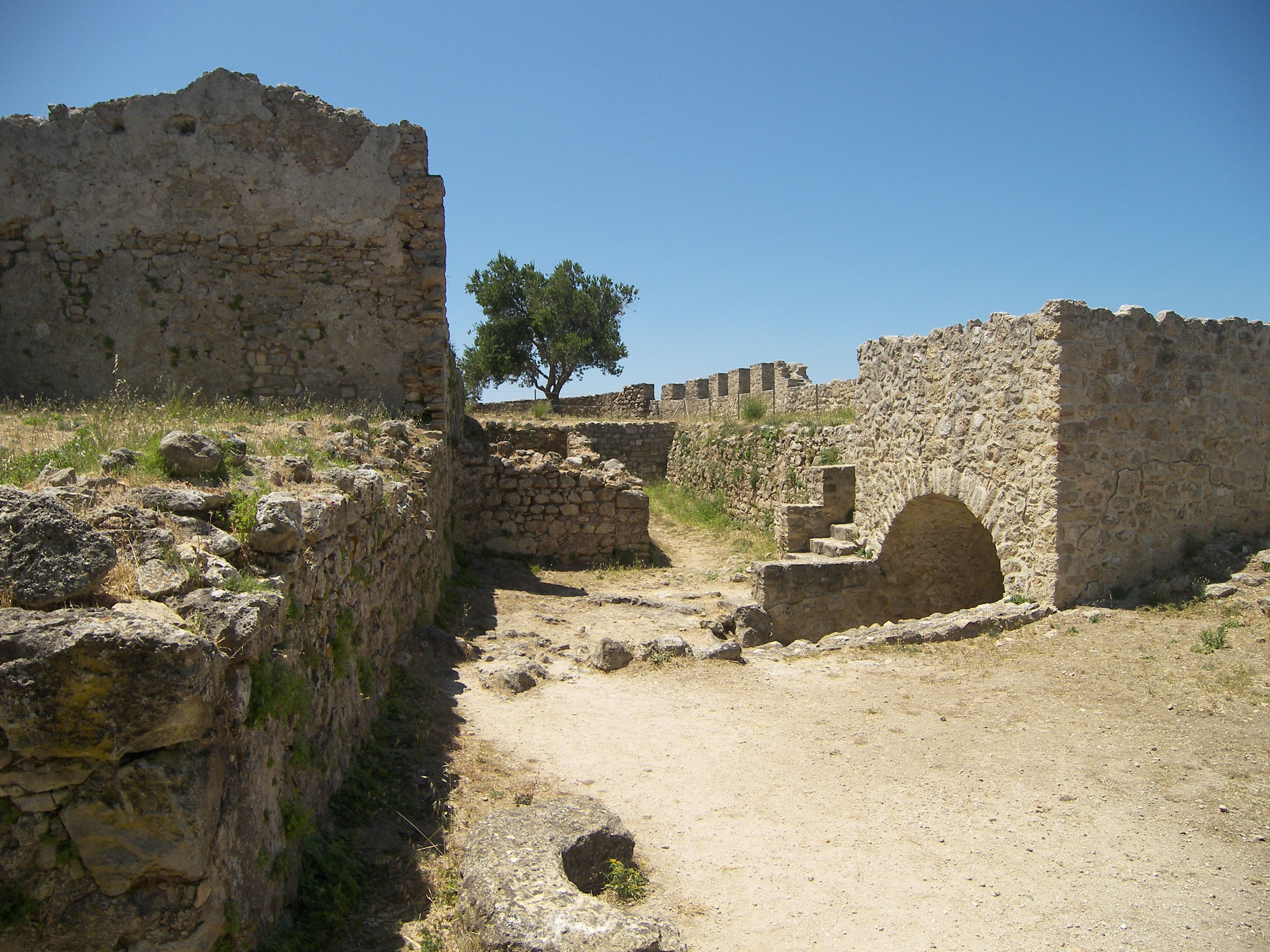 Please see filename